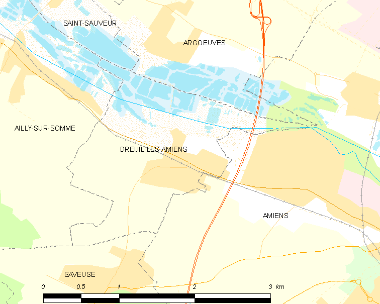 Map of French municipality Dreuil-lès-Amiens